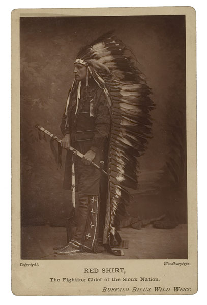 "Red Shirt, the Fighting Chief of the Sioux Nation" - a woodburytype "cabinet card" depicting a performer in the Buffalo Bill Wild West Show.